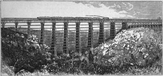 View of the Dale Creek Bridge, Wyoming. This illustration shows the original wooden trestle built in 1868, rather than the spindlier iron bridge that replaced it in 1876. Illustration cropped and converted to grayscale using GIMP.